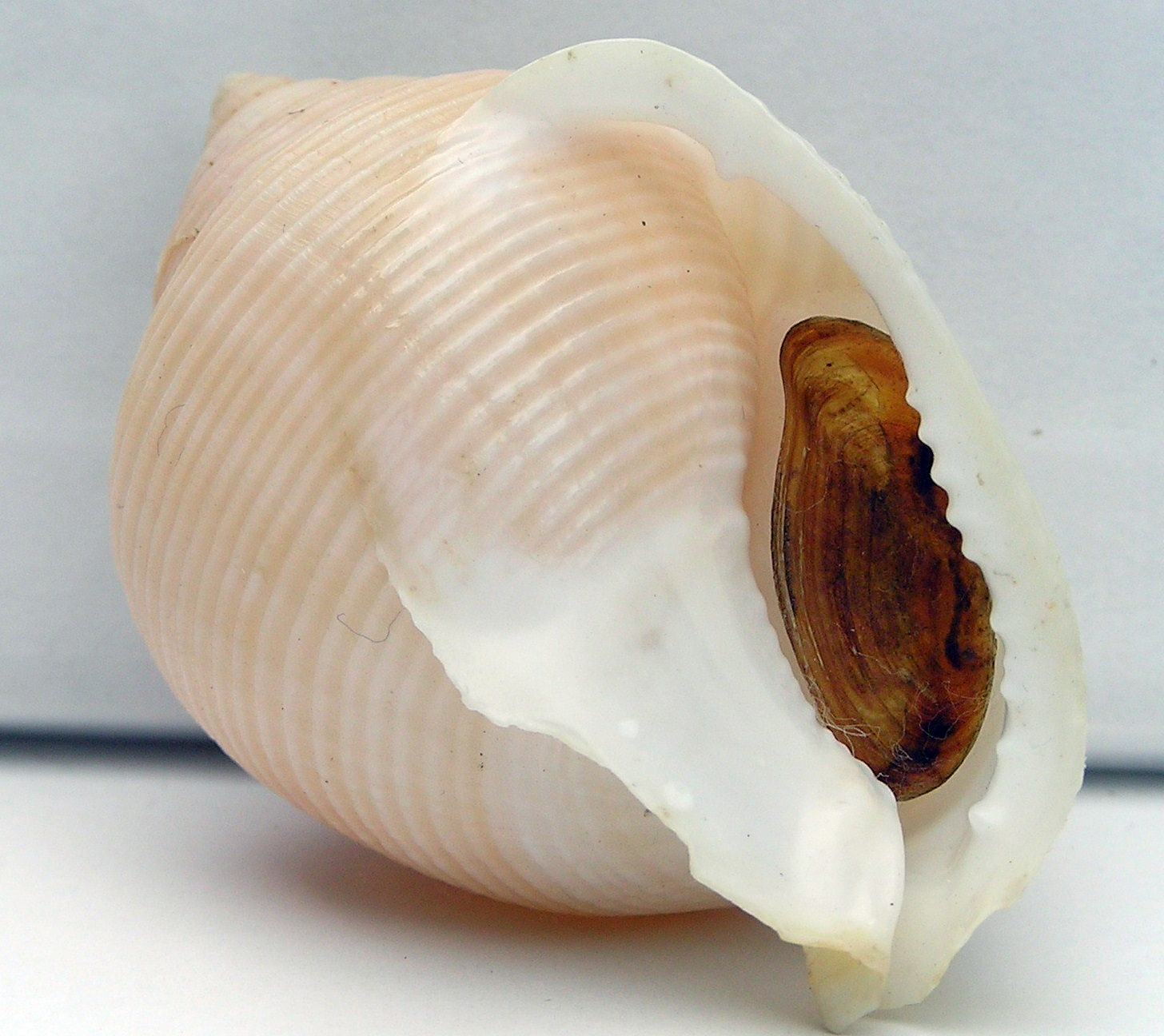 Galeodea rugosa (Linnaeus, 1771) , a helmet snail in the family Cassidae; Mediterranean Sea along Italy